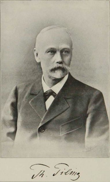 Theodor Tiling (1842-1913), German psychiatrist